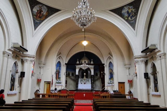 Surb Grigor Lusavoric Armenian Apostolic church in Buenos Aires